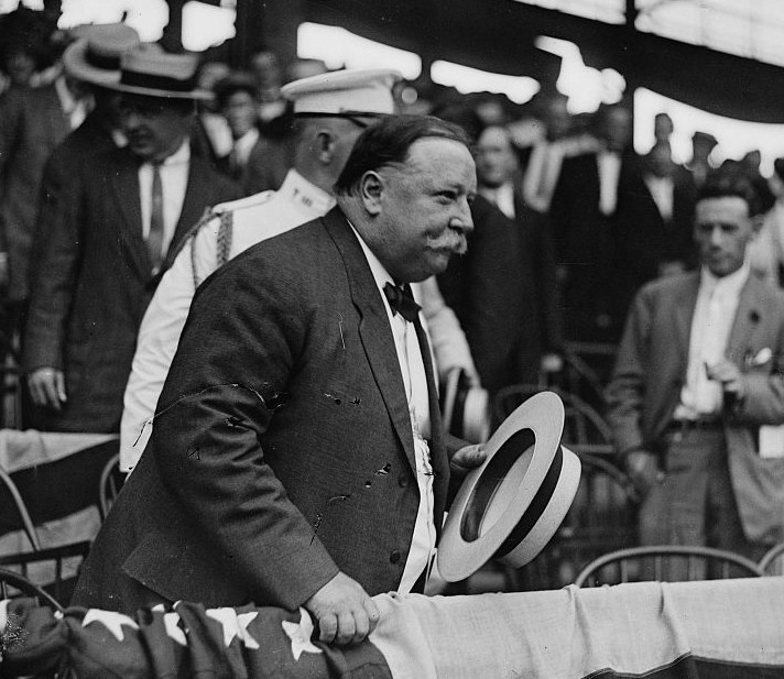 President William H Taft attends White Sox-Senators game, August 13, 1912, Griffith Stadium, Washington